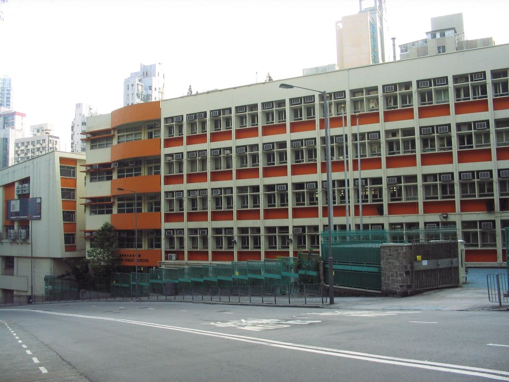 庇理羅士女子中學 Belilios Public School